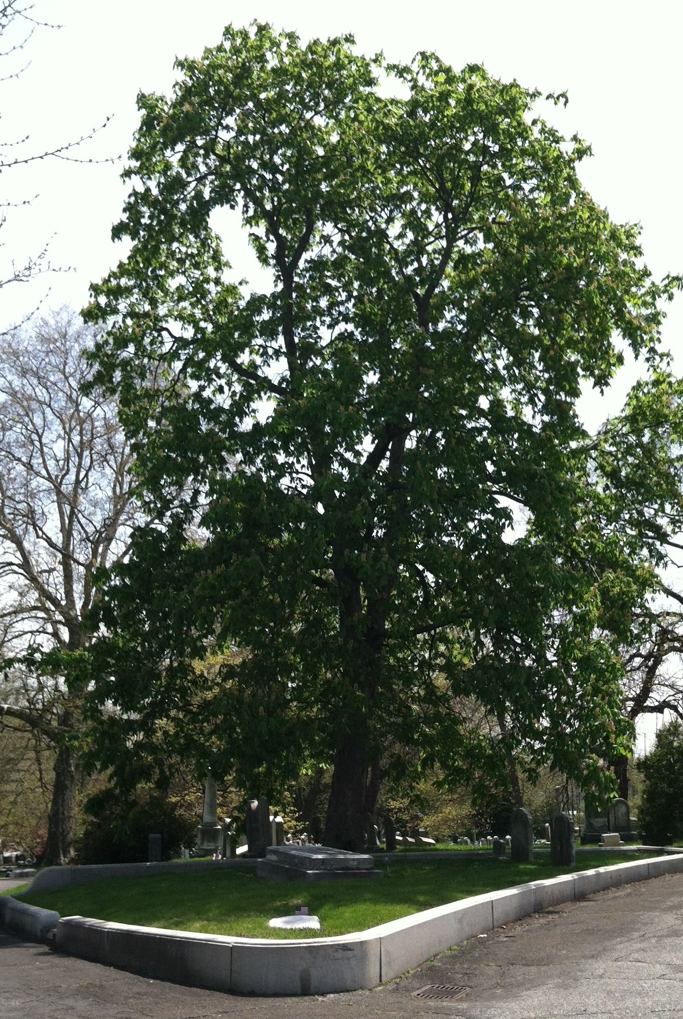 Coles family gravesite at Woodlands cemetery. Edward Coles weathered slab in sunlit foreground. Son Roberts Coles vault in rear; son Edward Coles Jr and wife Bessy Coles gravestones to right; all under blooming horse chesnut tree